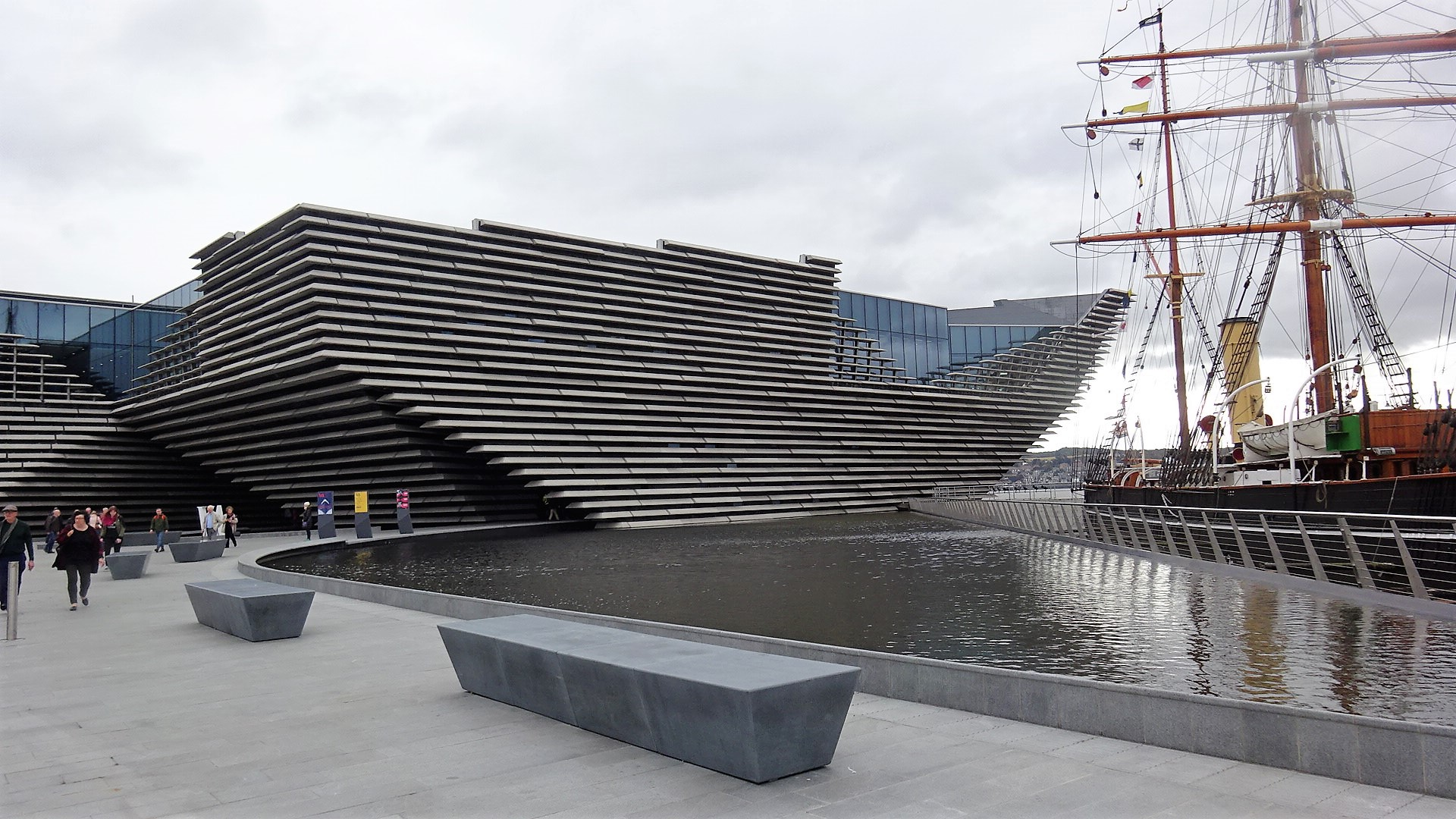 The RRS Discovery & the Victoria & Albert Museum, Dundee, Scotland.